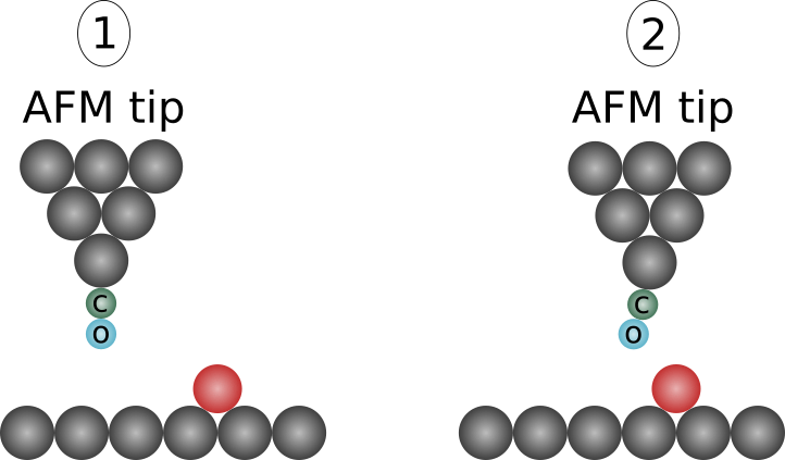 Non-contact atomic force microscope (AFM), tip-sample interaction with CO terminated tip.